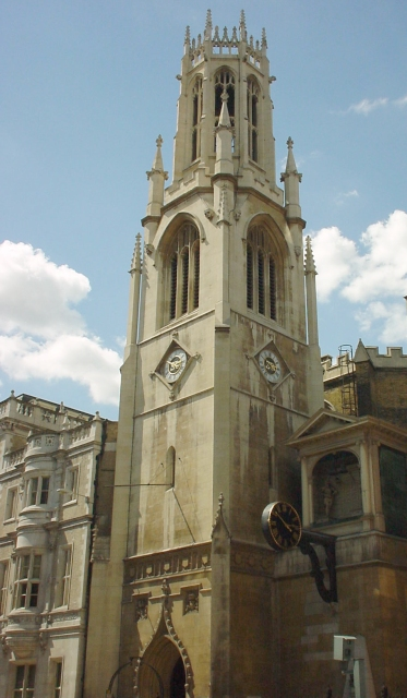 Photo taken by lonpicman